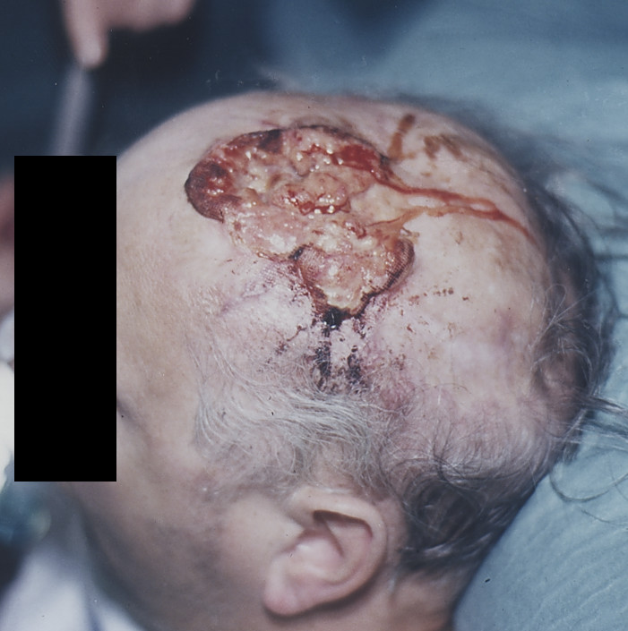 63 year old male patient presenting with a large 8 × 8 cm measuring exulcerated suppurating tumor of the scalp (Marjolin's ulcer).